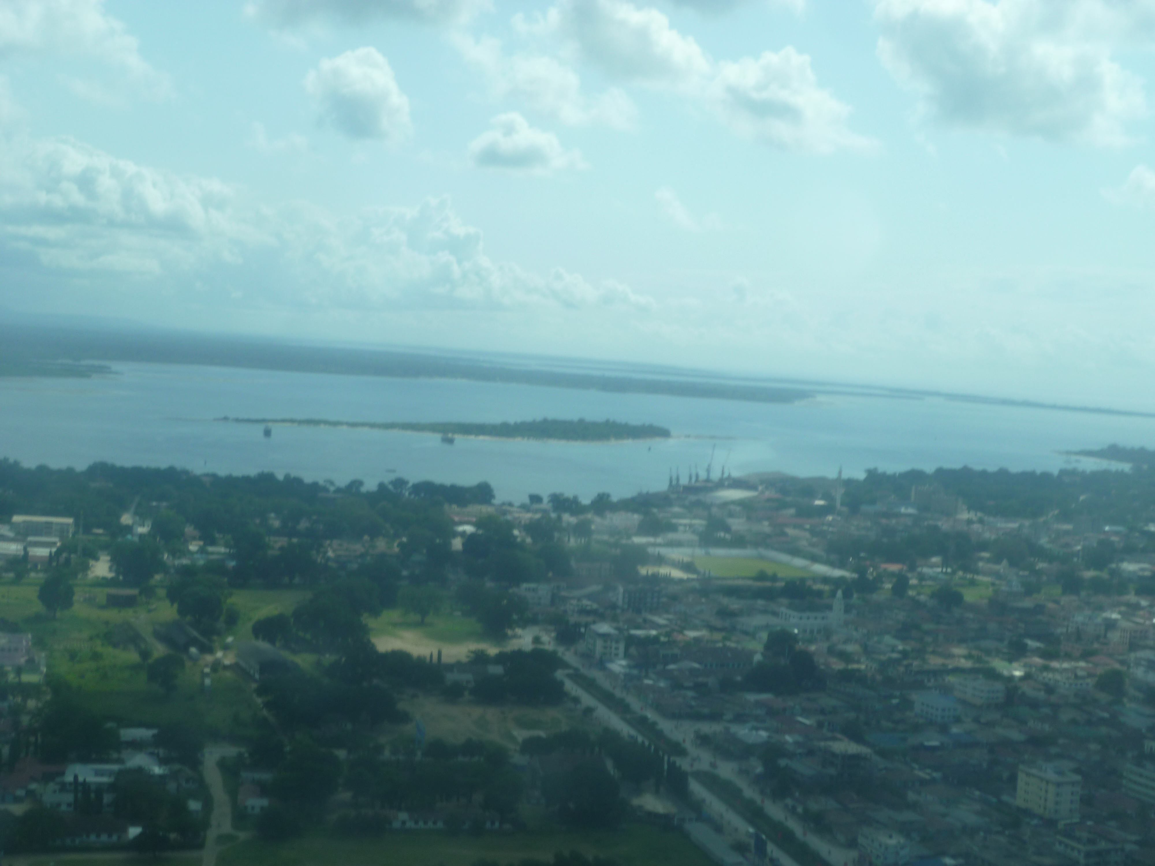 Aerial view of Tanga City in Tanzania. Toten Island can be seen within the Tanga Bay